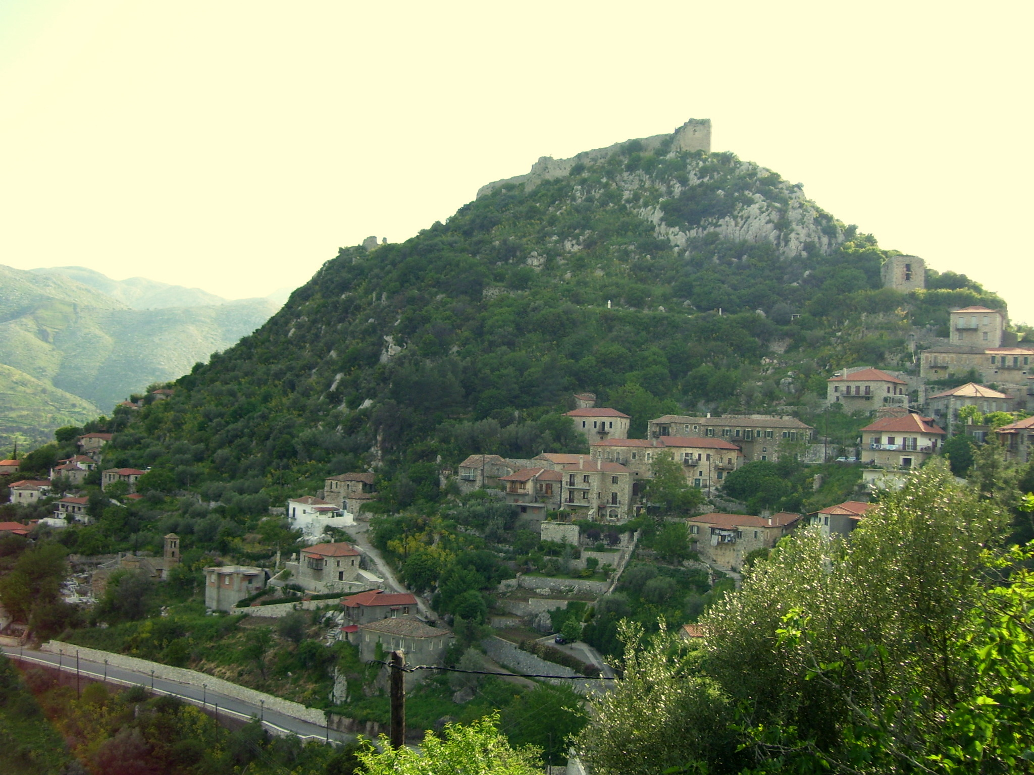 Karytaina village